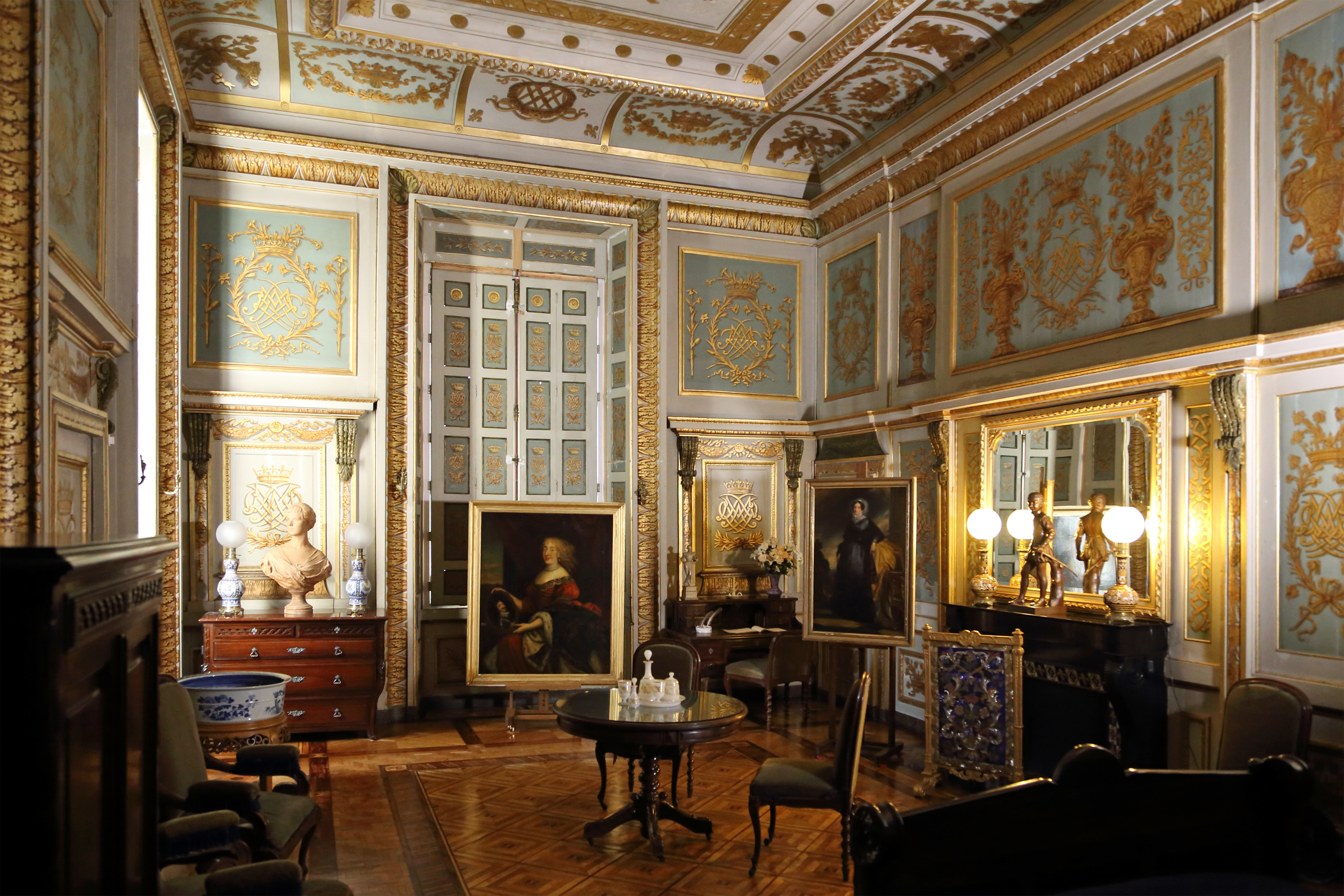 Eu (Seine-Maritime department, France): interior of the castle